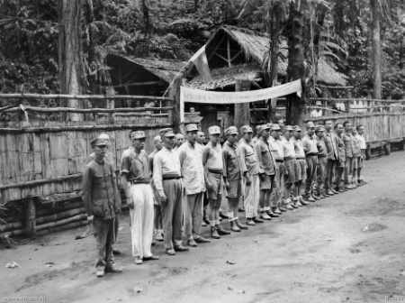 KUMUIA YAMA, RABAUL AREA, NEW BRITAIN. 1945-09-17. A CHINESE PLATOON, PART OF A COMPLETE UNIT BROUGHT FROM SINGAPORE BY THE JAPANESE TO WORK IN NEW BRITAIN DURING THE JAPANESE OCCUPATION. THEY ARE PARADING IN FRONT OF THEIR QUARTERS UNDER A WELCOME SIGN PLACED OVER THE GATEWAY TO THE CHINESE INTERNMENT CAMP. CHINESE FLAG FLYING IN BACKGROUND.